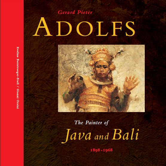 Cover of the book ‘Gerard Pieter Adolfs – The Painter of Java and Bali’ of 2008